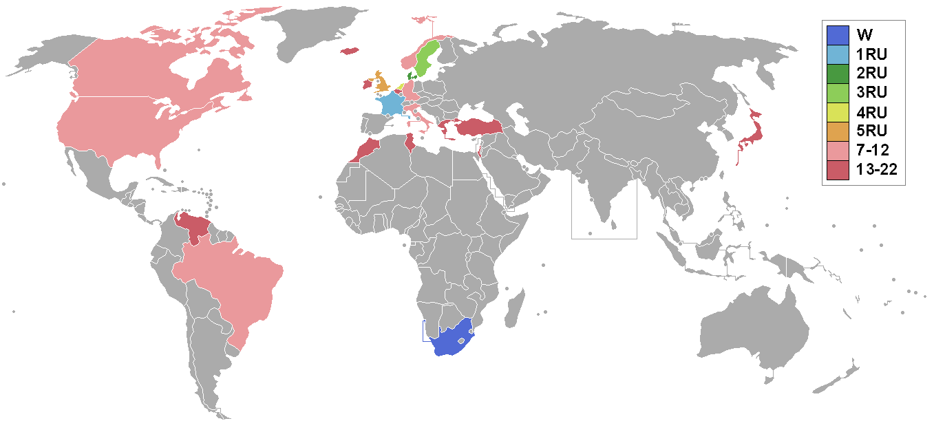 results map